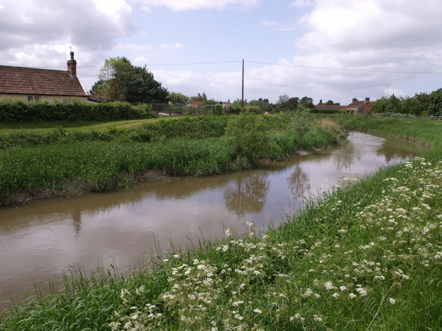 River Tone, Somerset. The Tome, flowing towards the camera between levees, curves past Creed's Farm on the right as it approaches Burrowbridge. On the left is "The Fruit Garden". Seen from the River Parrett Trail.